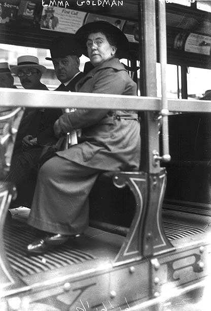 Photographer Unknown (Bain News Service): Emma Goldman on a Street Car (1917) This candid photograph was probably taken during one of the many strikes or antiwar demonstrations in which the anarchist and feminist was active during World War I. Two years later, at the height of the Red Scare, Goldman was deported to the Soviet Union, to return in 1934, disenchanted with the Soviet experiment and with the violent political repression in Stalin's Russia. No doubt the photographer saw the irony in the patriotic Uncle Sam poster visible here behind the feisty ideologue's head.